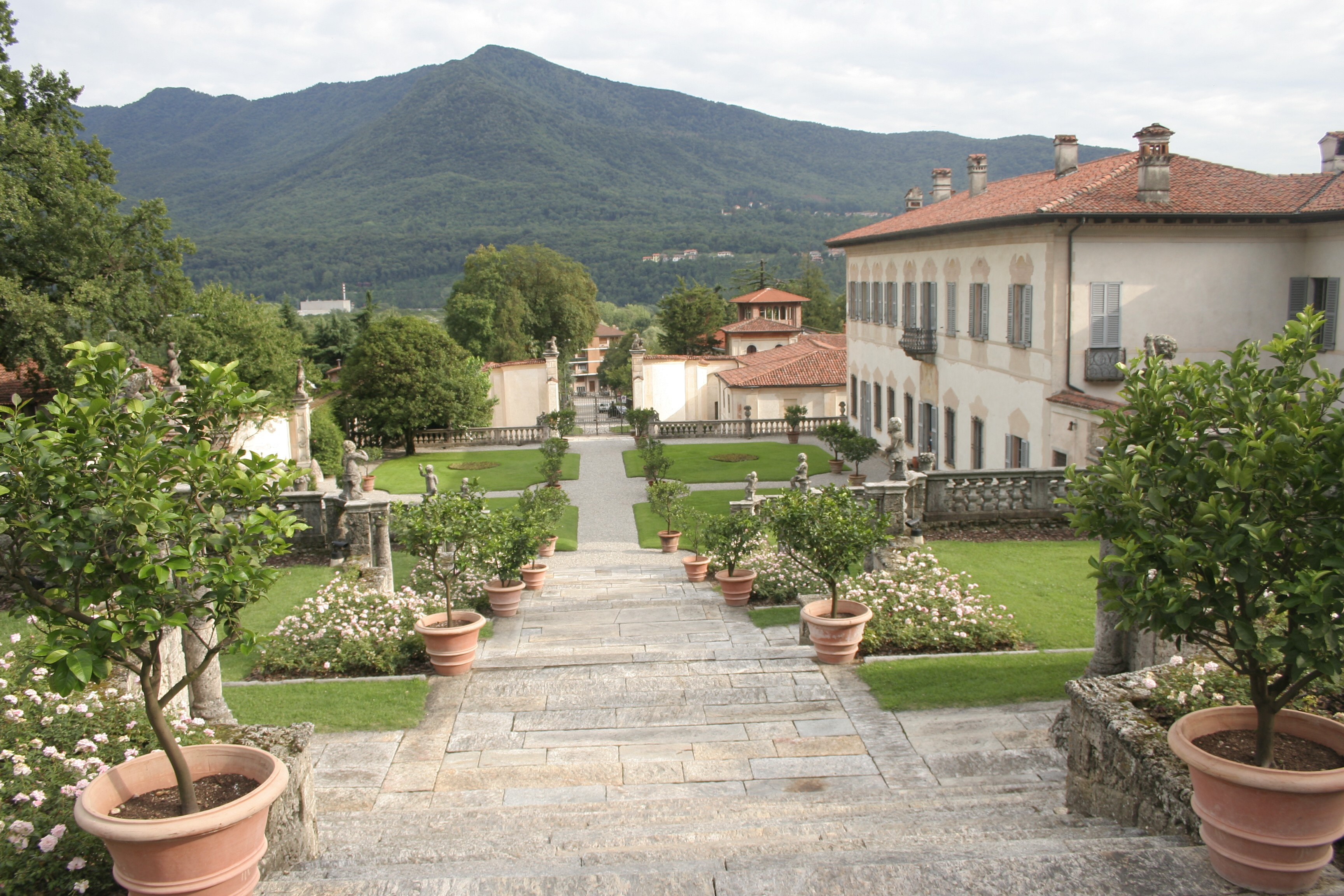 Villa Della Porta Bozzolo